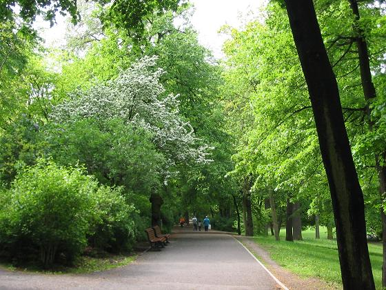 The "Rudolph-Wilde-Park" in Berlin; way at the western part of the park